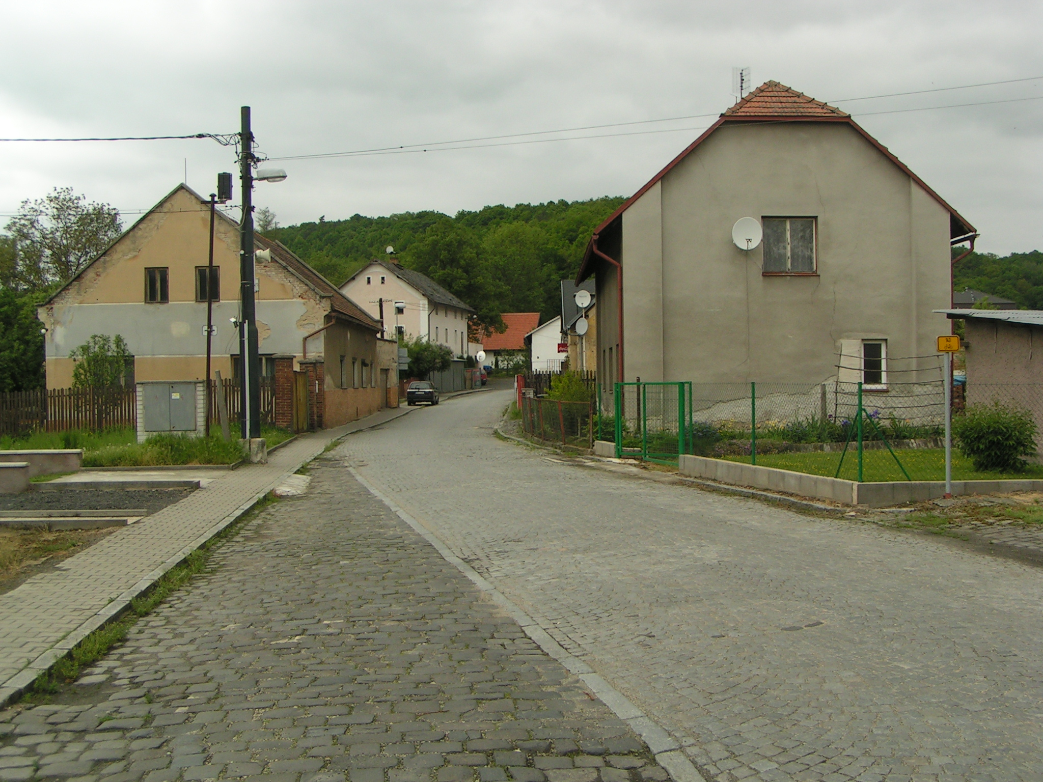 Dolní Cetno - houses near the road to Kovanec